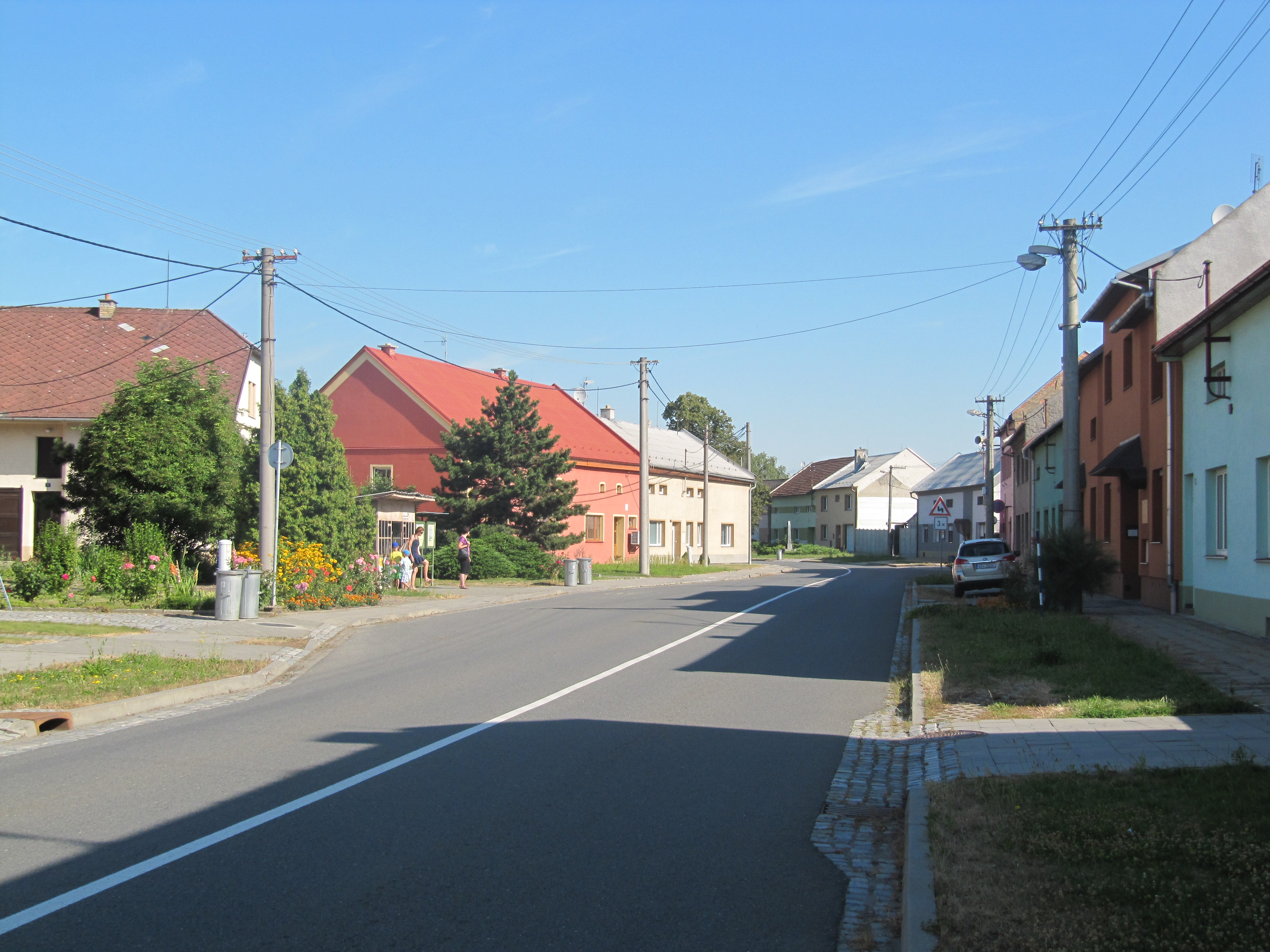 Chropyně, Kroměříž District, Czech Republic, part Plešovec.